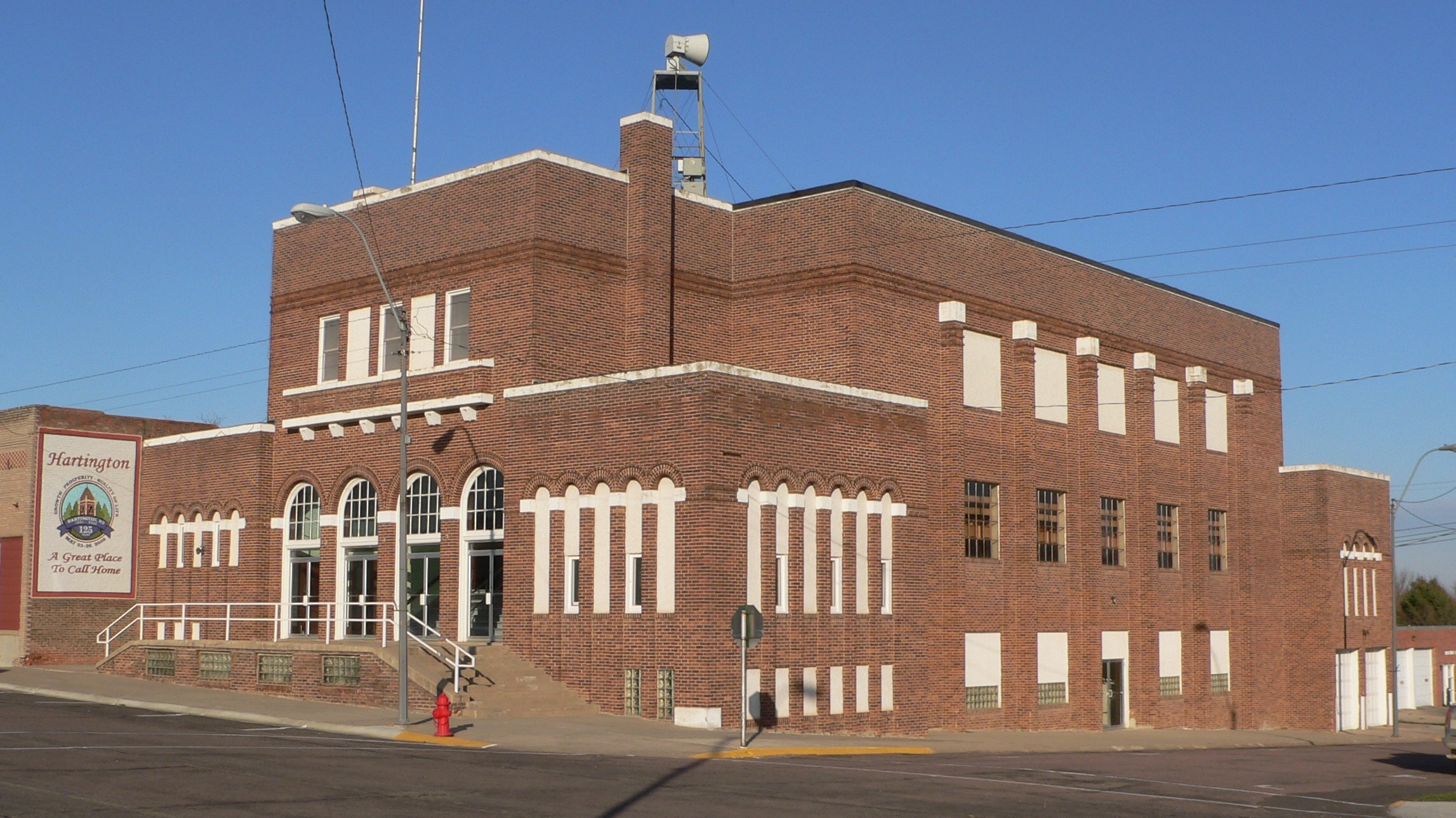 City auditorium, former city hall, in Hartington, Nebraska; seen from the southwest. The "Hartington" mural at left is on the adjoining building.